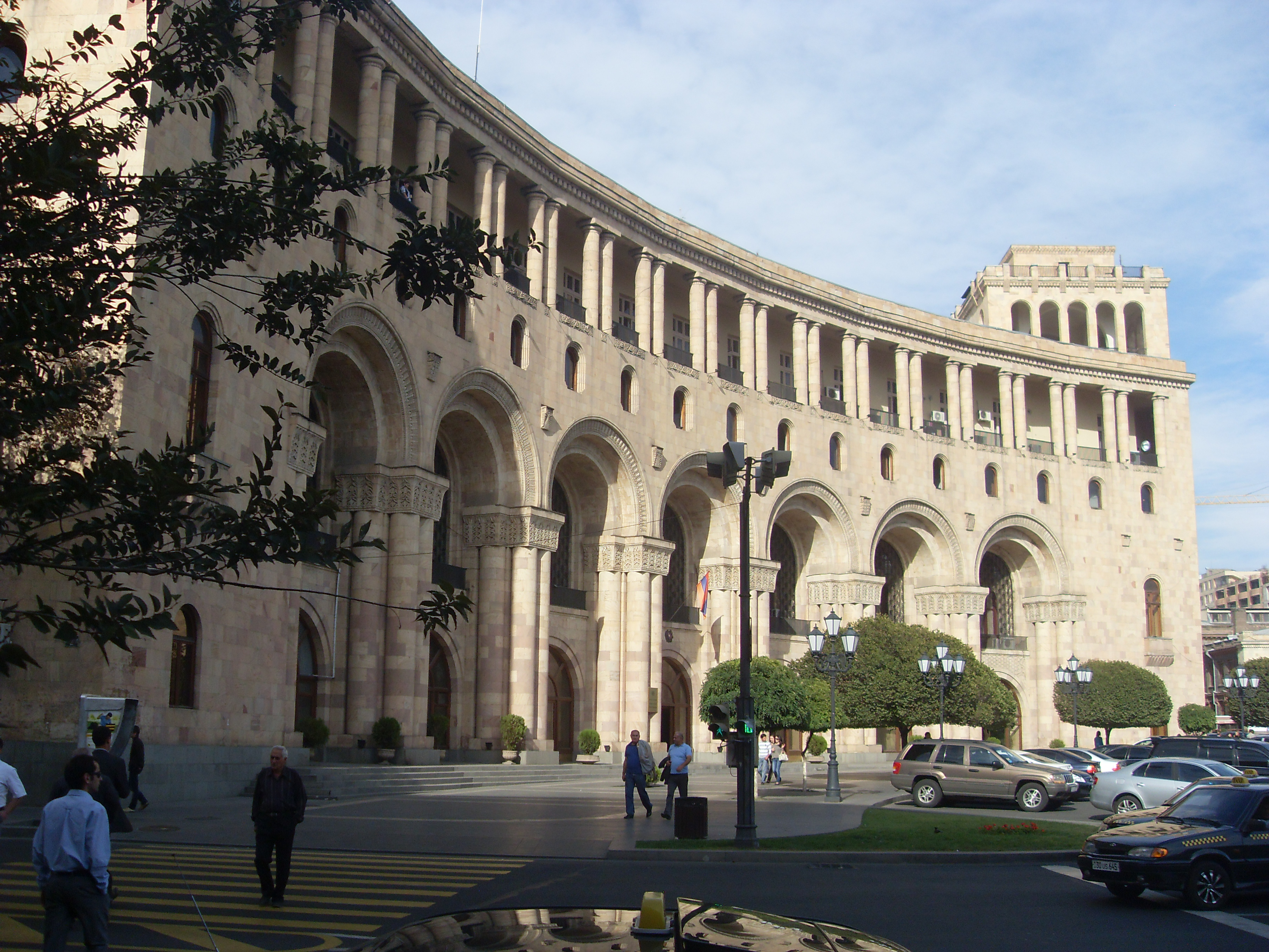 Republic square, Yerevan, 1926-1977, sculp. S. Merkurov, archit. A. Tamanyan, S. Safaryan, M. Grigoryan, G. Tamanyan, V. Arevshatyan, E. Sarapyan, L. Vardanov, N. Paremuzova 6/96